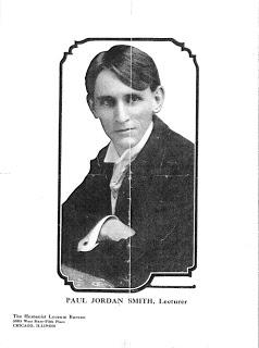 Portrait of Paul Jordan-Smith on lecture brochure, ca. 1914.